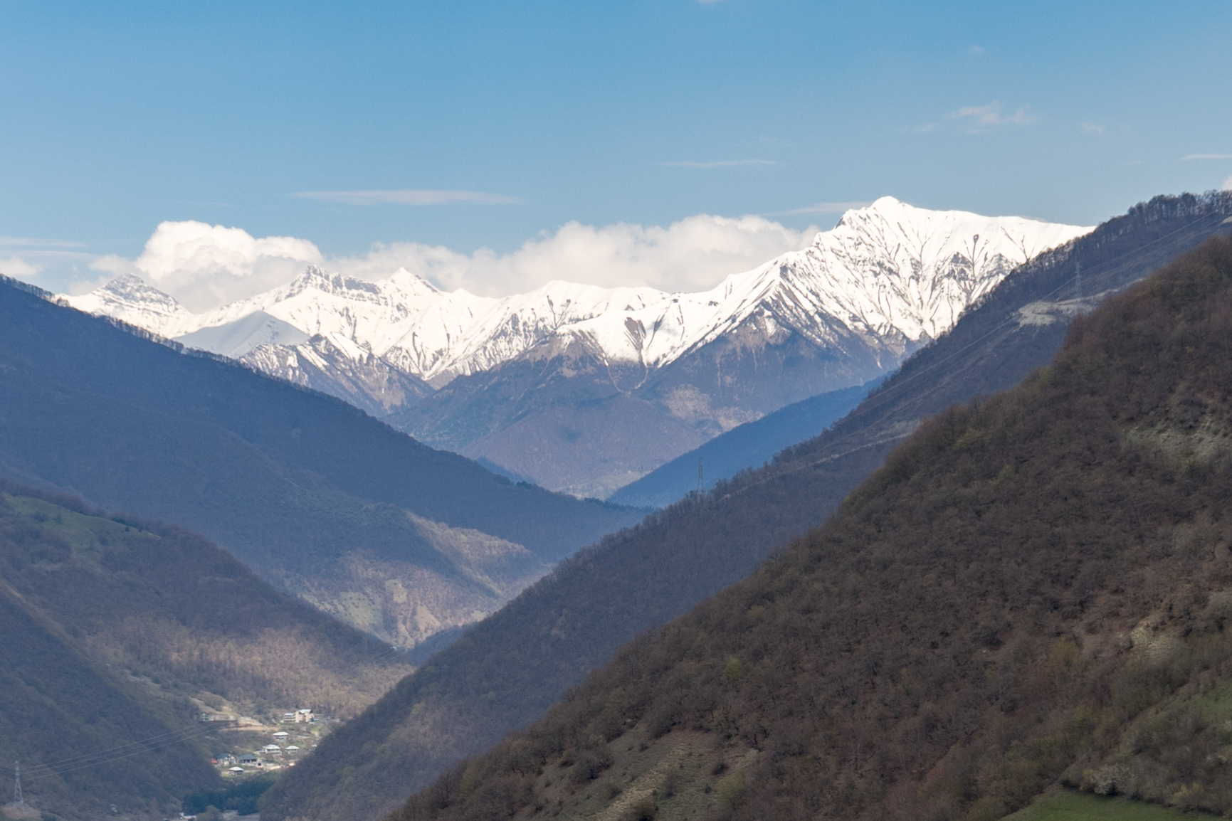 Mtiuleti Mountain Range as seen from Buchaani Village, Mtskheta-Mtianeti, Georgia